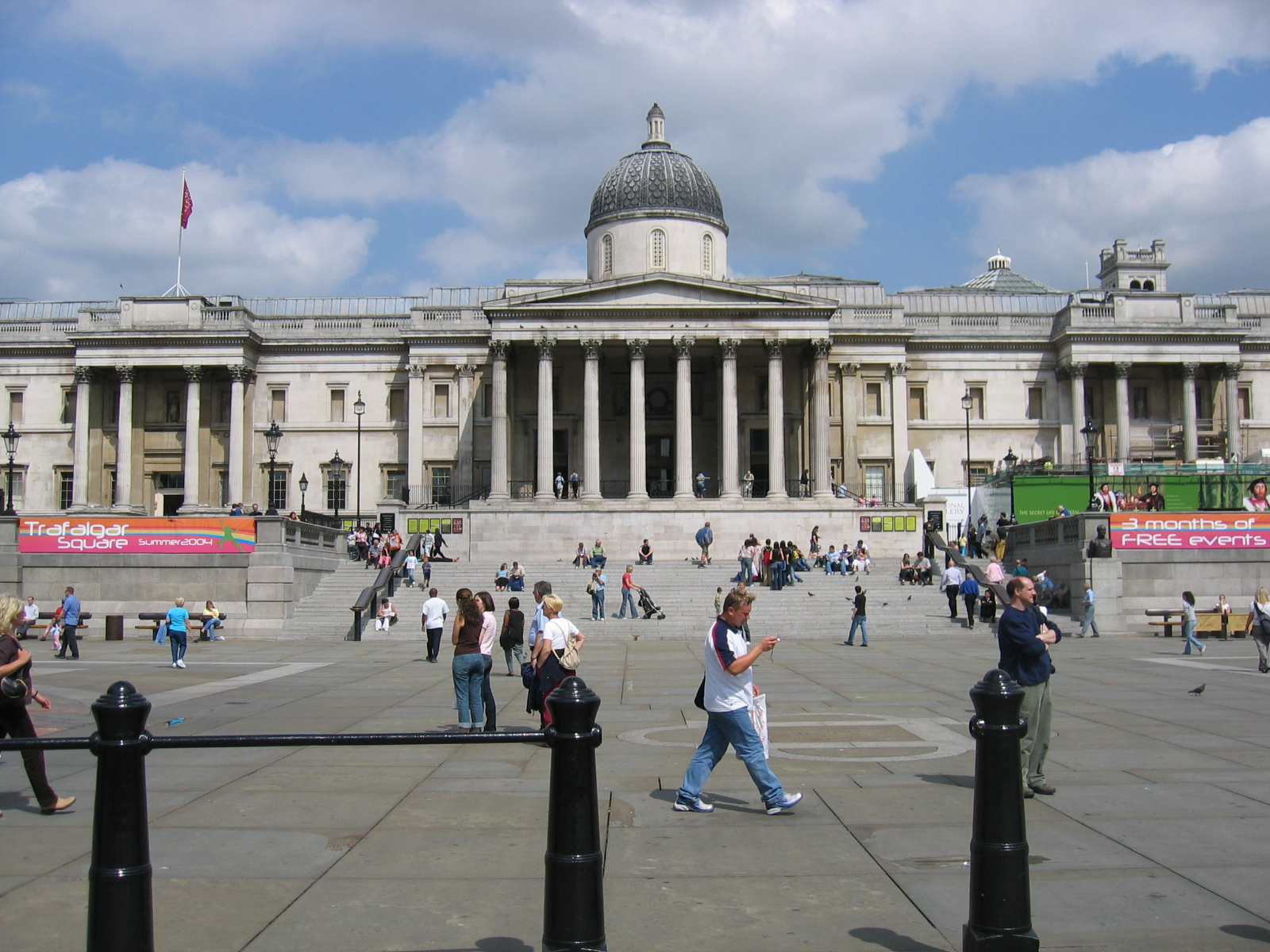 Photo of The National Gallery, London.